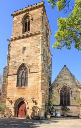 Cathedral in Redfern, Sydney of the Greek Orthodox Archdiocese of Australia